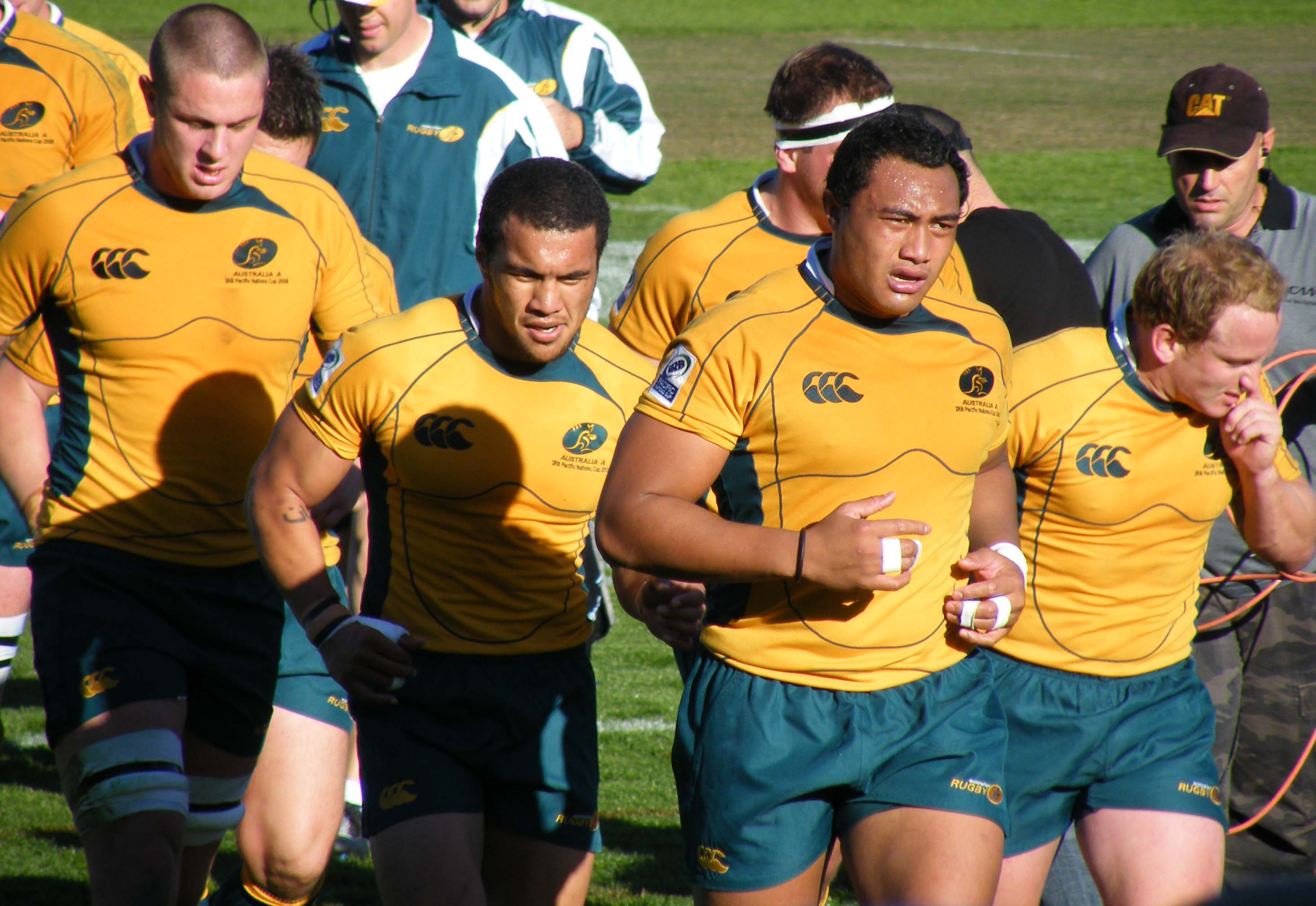 Hugh McMeniman, Digby Ioane, Sekope Kepu and blowing his nose is Brett Sheehan. Pacific Nations Cup 2008 - Australia A vs. Tonga